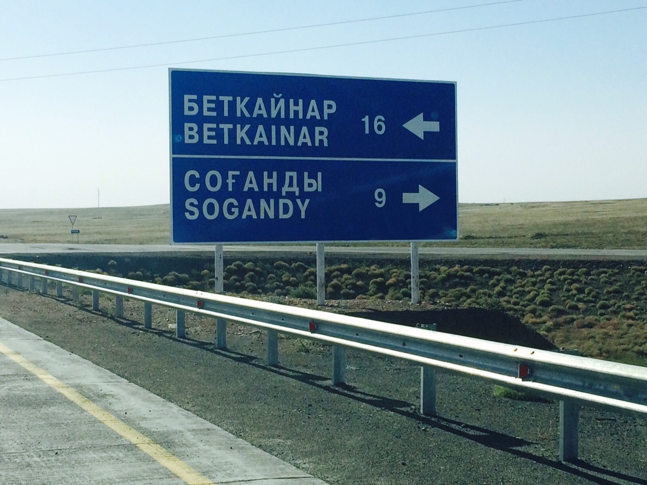 Trafficator to Sogandy on the highway Western China - Western Europe